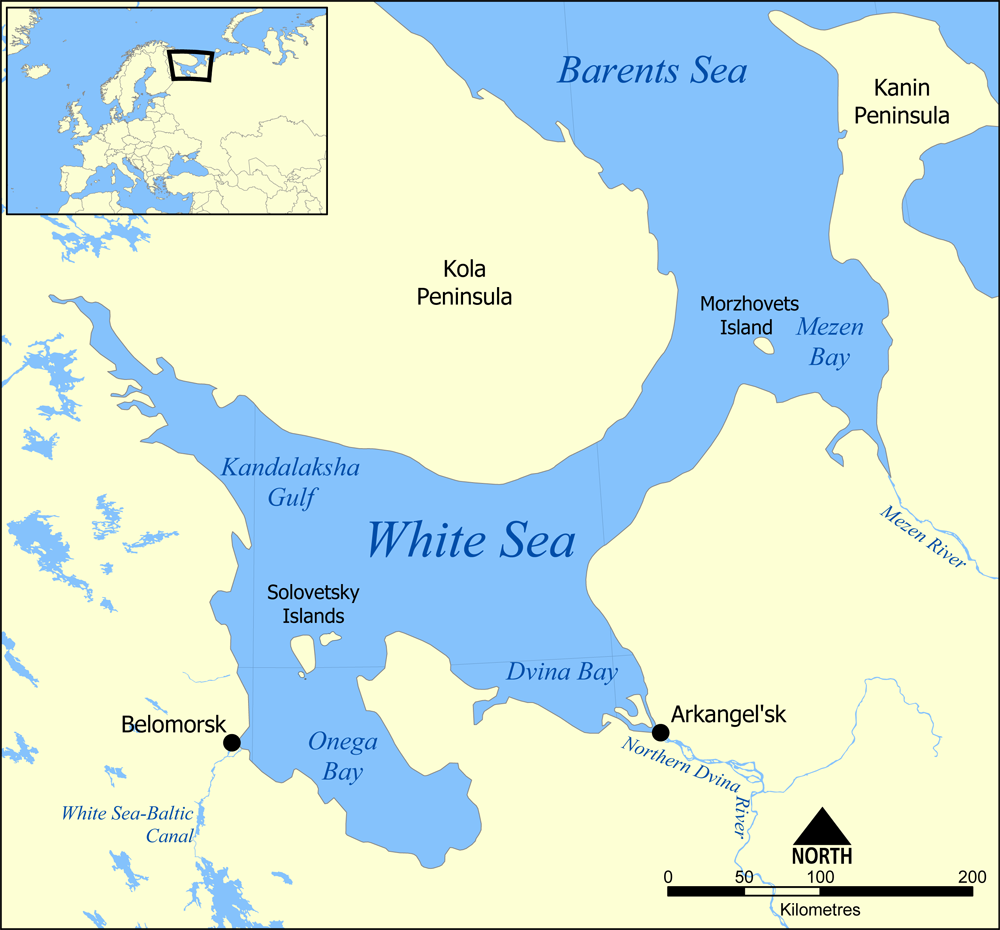 Map of the White Sea in Russia. Also showing the various bays and gulfs in the sea.